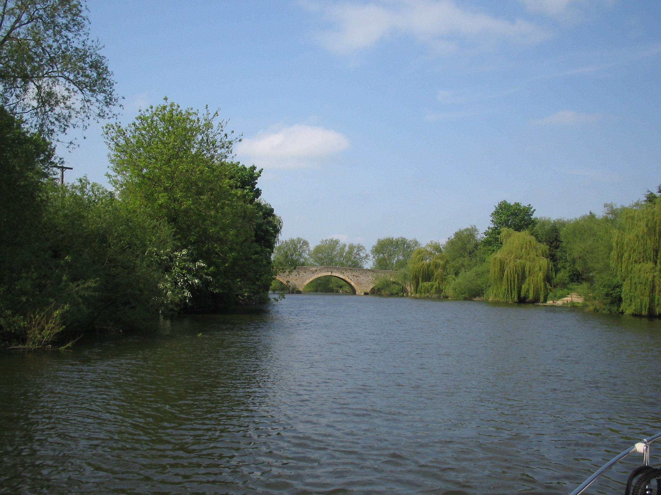 Sutton Bridge (upstream side) over the River Thames at Culham Lock